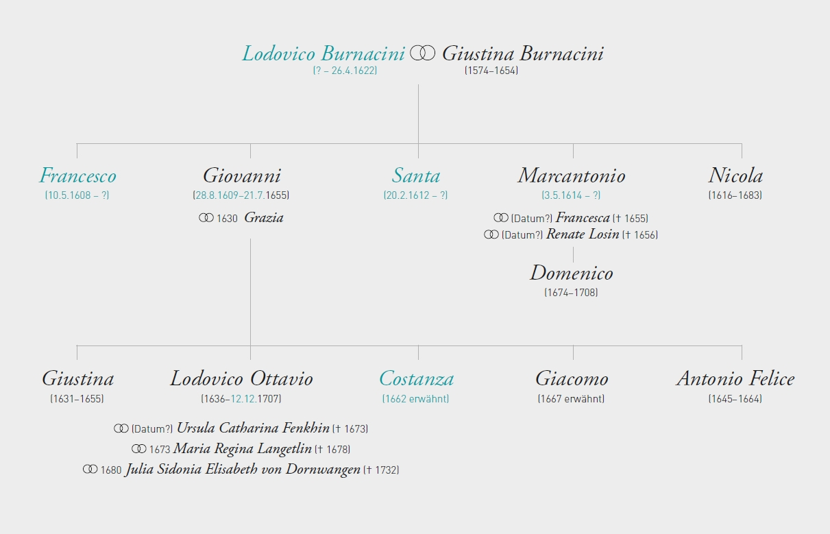 Genealogy of the Burnacini Family over three generations